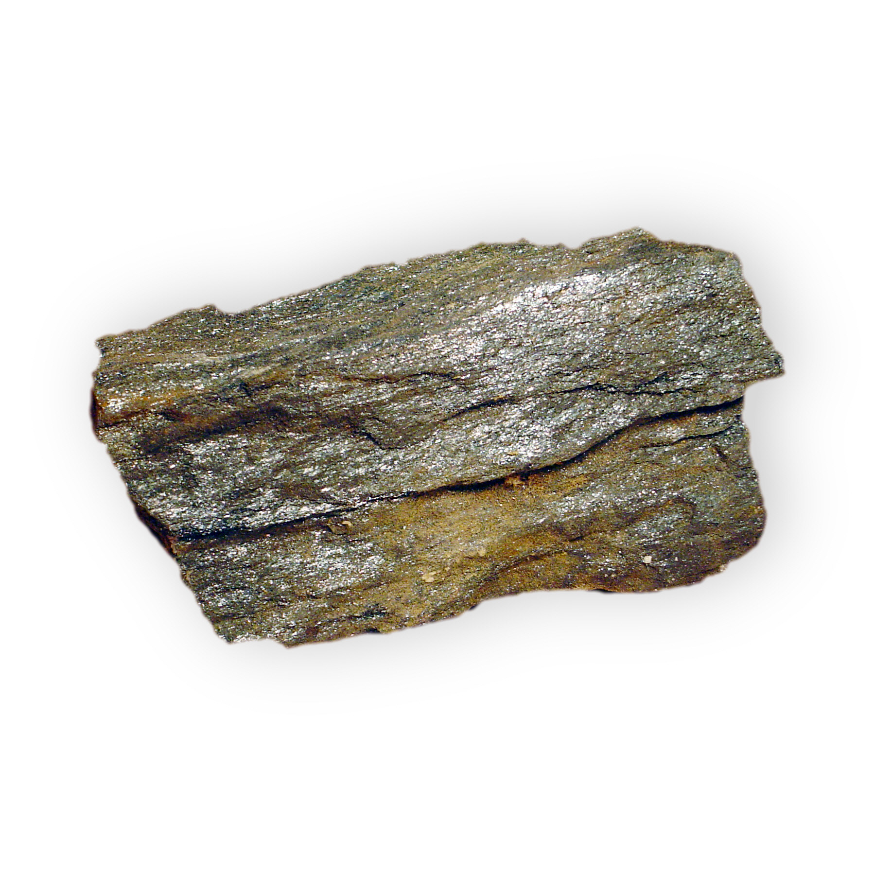 These mineral images are free to use how you wish.